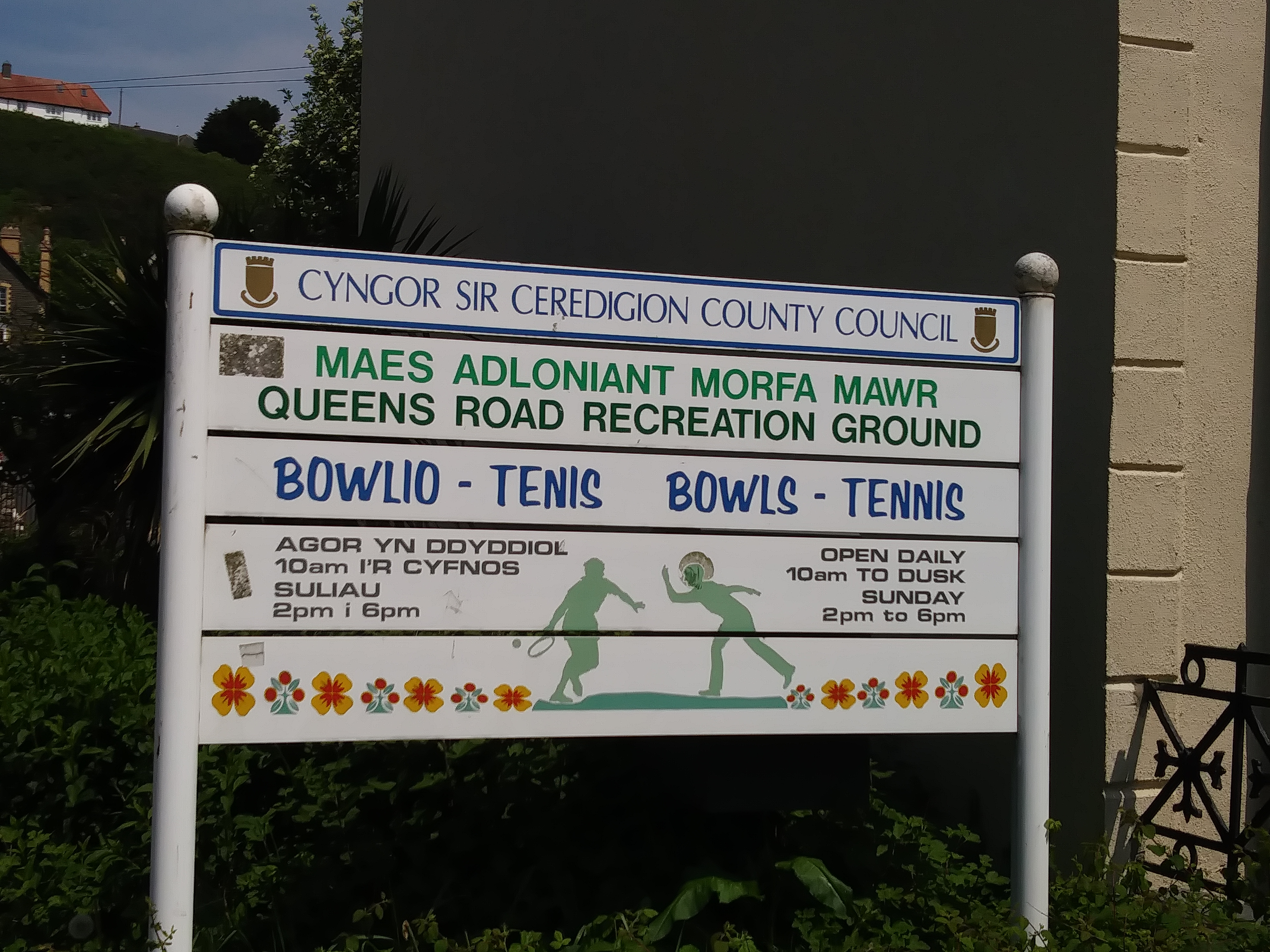 Aberystwyth Tennis Club, sign